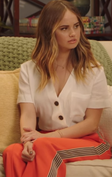 Do Melissa McCarthy and the cast of Life Of The Party know their Freshers from their Pot Noodles? The cast of the new comedy take the ultimate UK uni life quiz to see how their US college knowledge stacks up against UK uni life.